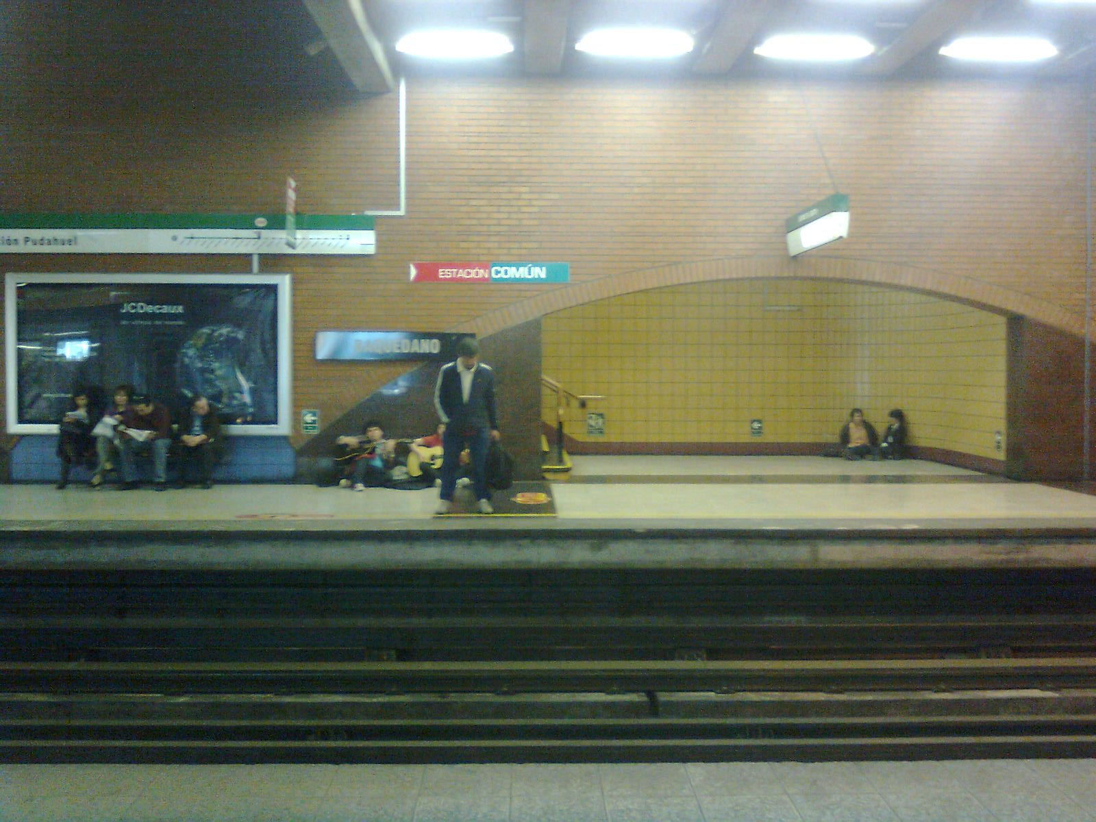 metro